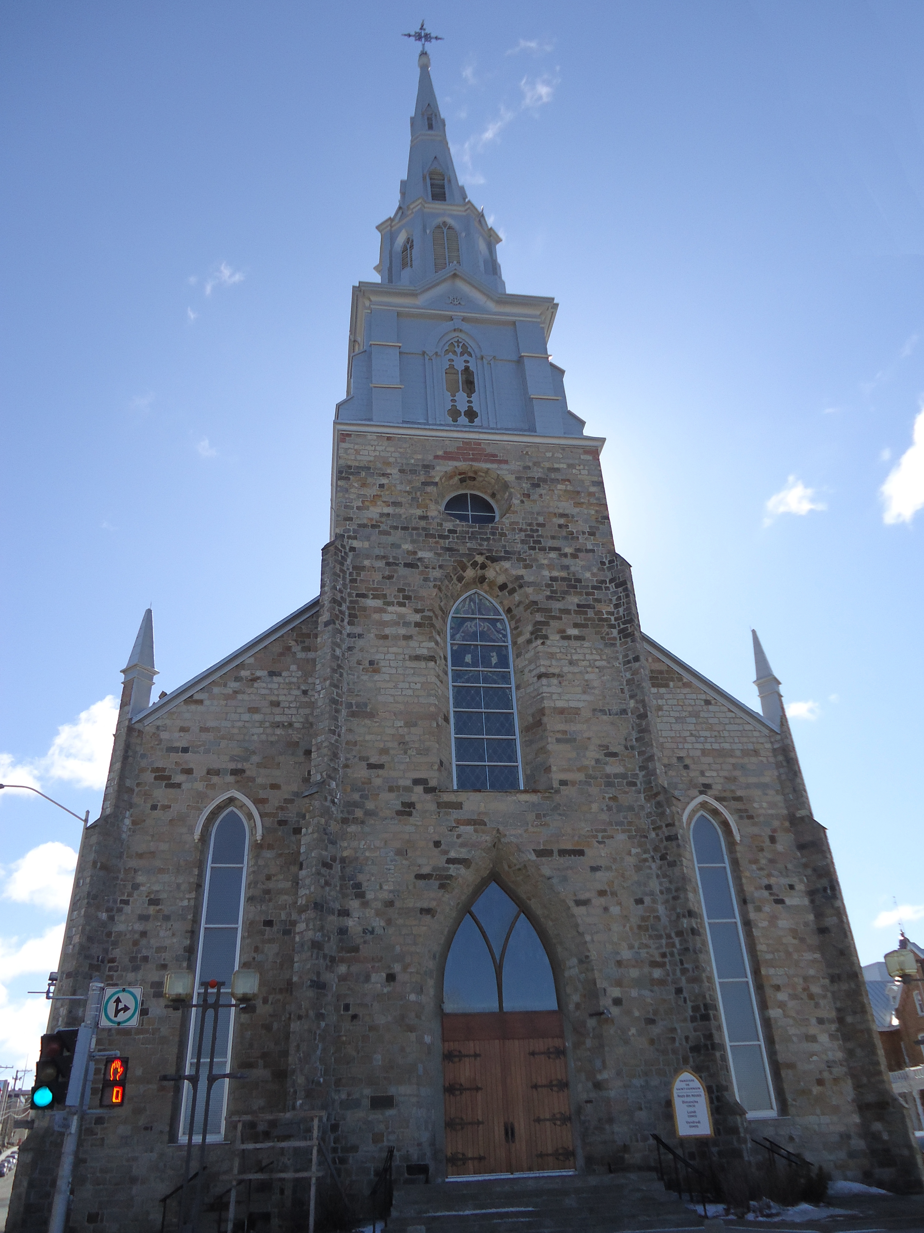 Front of the Cathédrale Saint-Germain in Rimouski in winter.